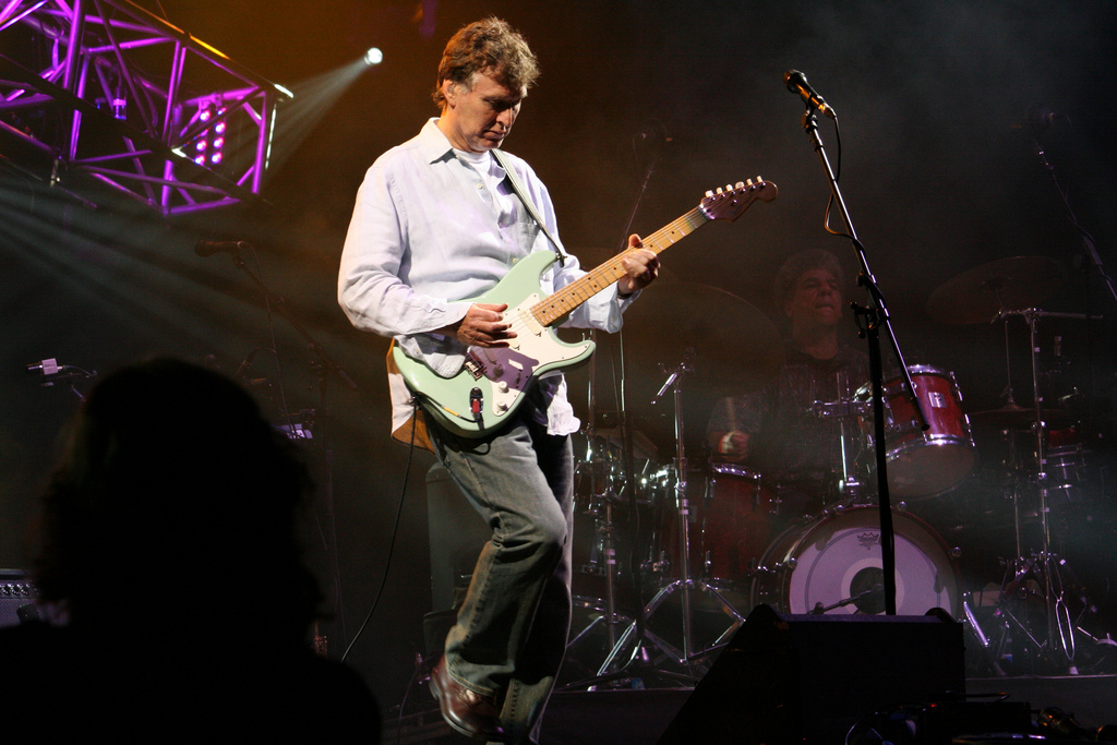 Steve Winwood at Cropredy Festival, 13 August 2009